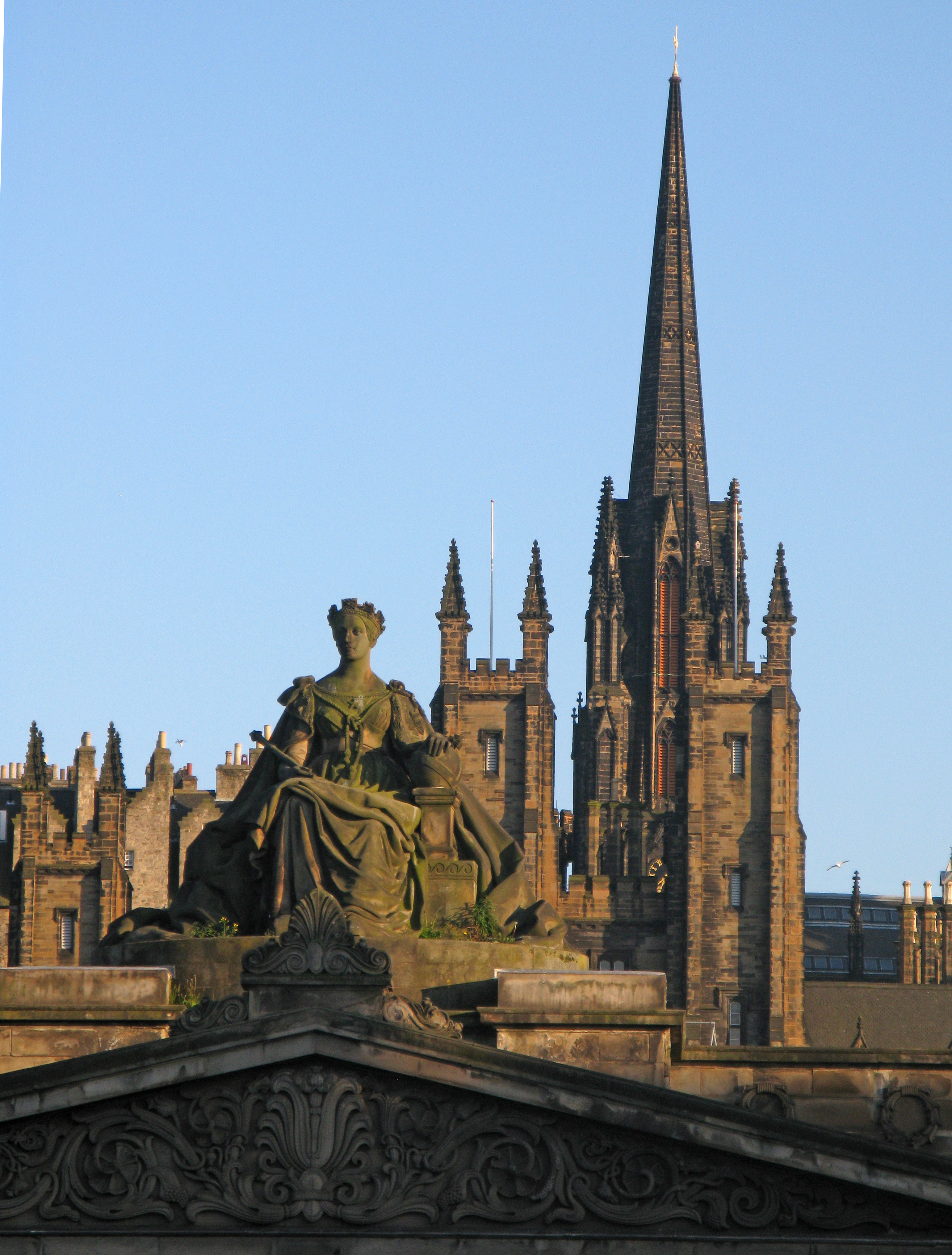 Royal Scottish Academy 3